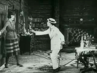 Screenshot from the 1922 film The Frozen North with Bonnie Hill and Buster Keaton.